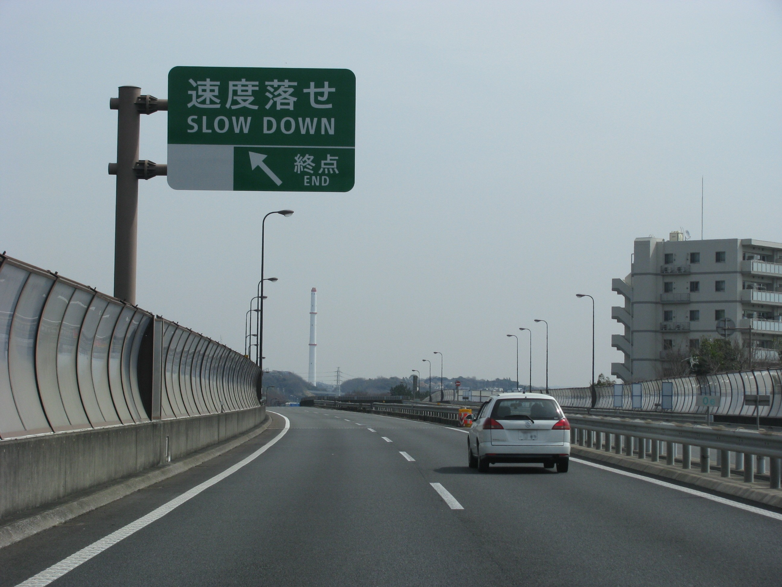 The Fujisawa interchange is a interchange of the Shinshōnan Bypass. This located is in Fujisawa, Kanagawa Prefecture, Japan.